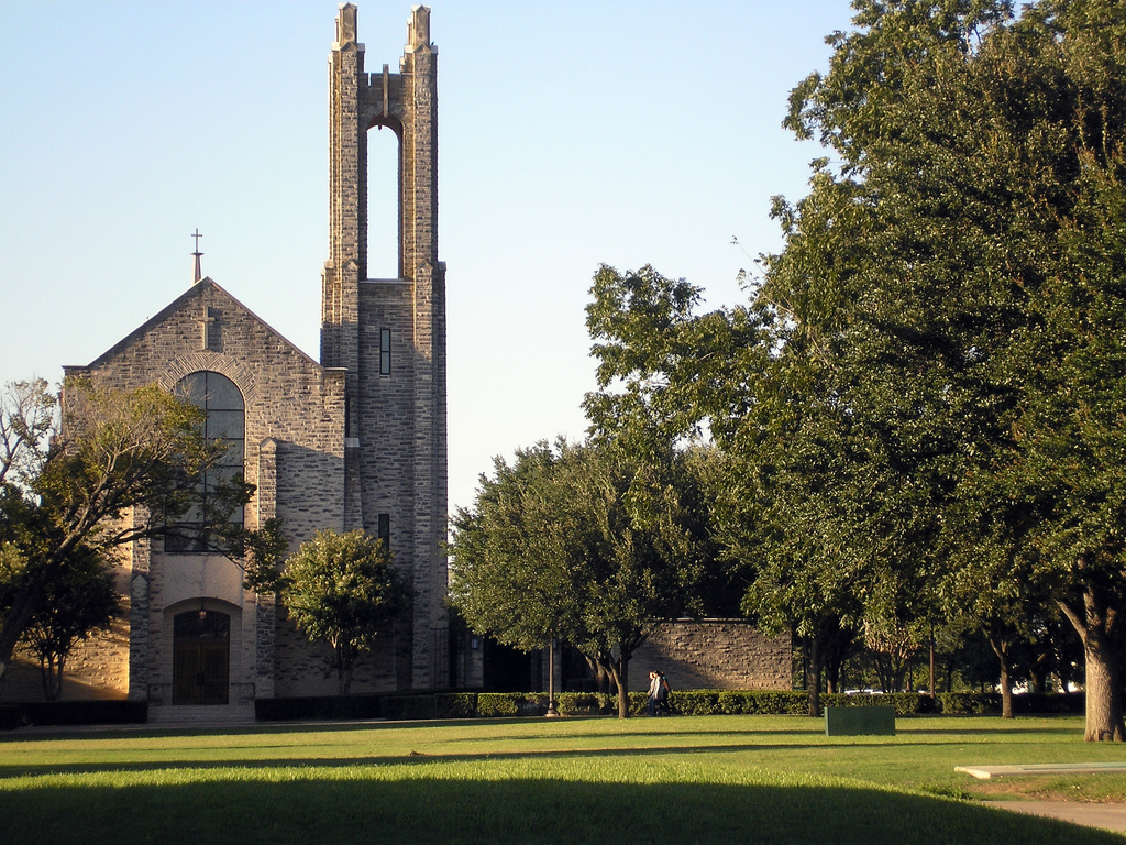 The mall at Southwestern University with the Lois Perkins Chapel in the background